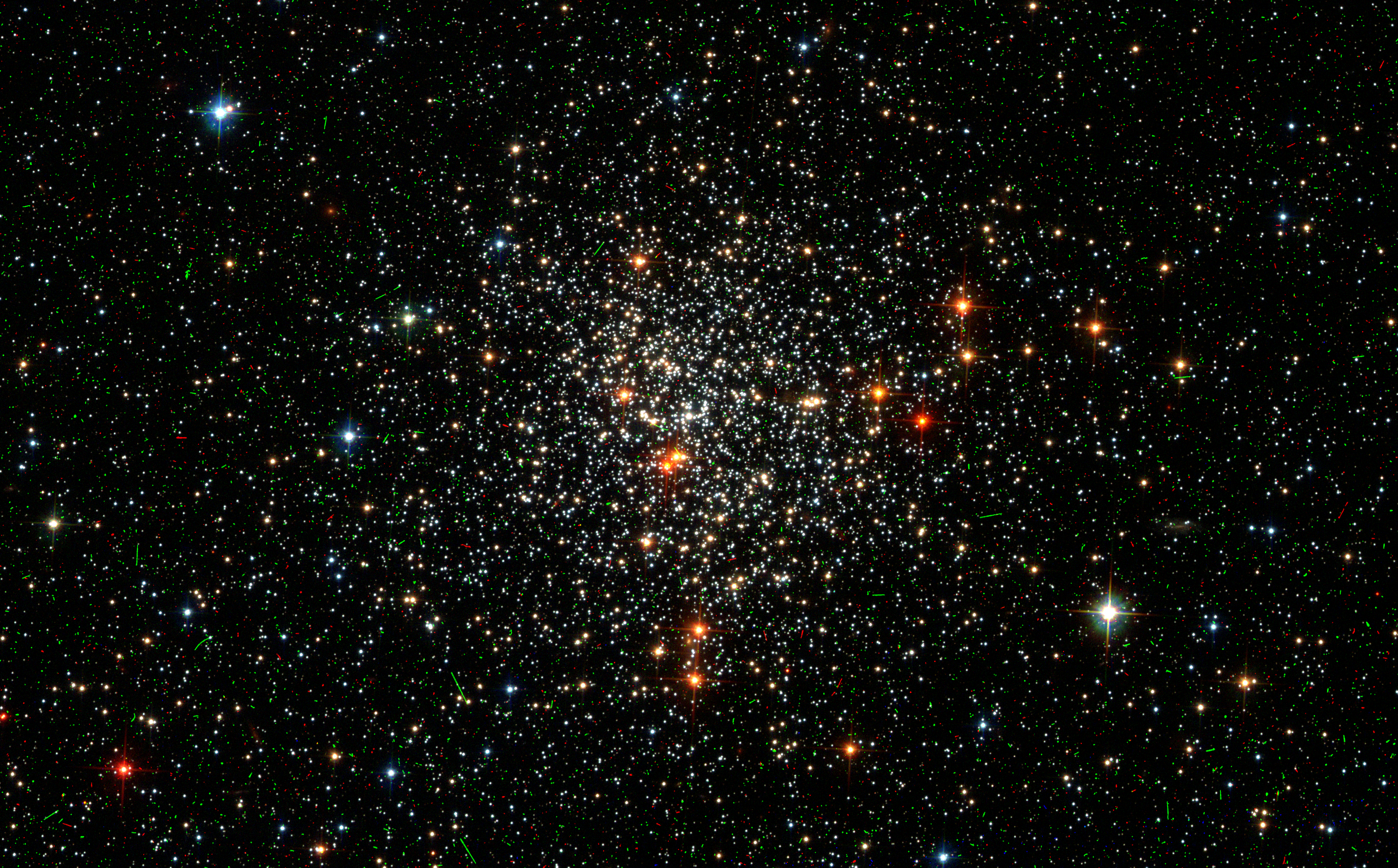 Color rendering is done by by Aladin-software (2000A&AS..143...33B.)